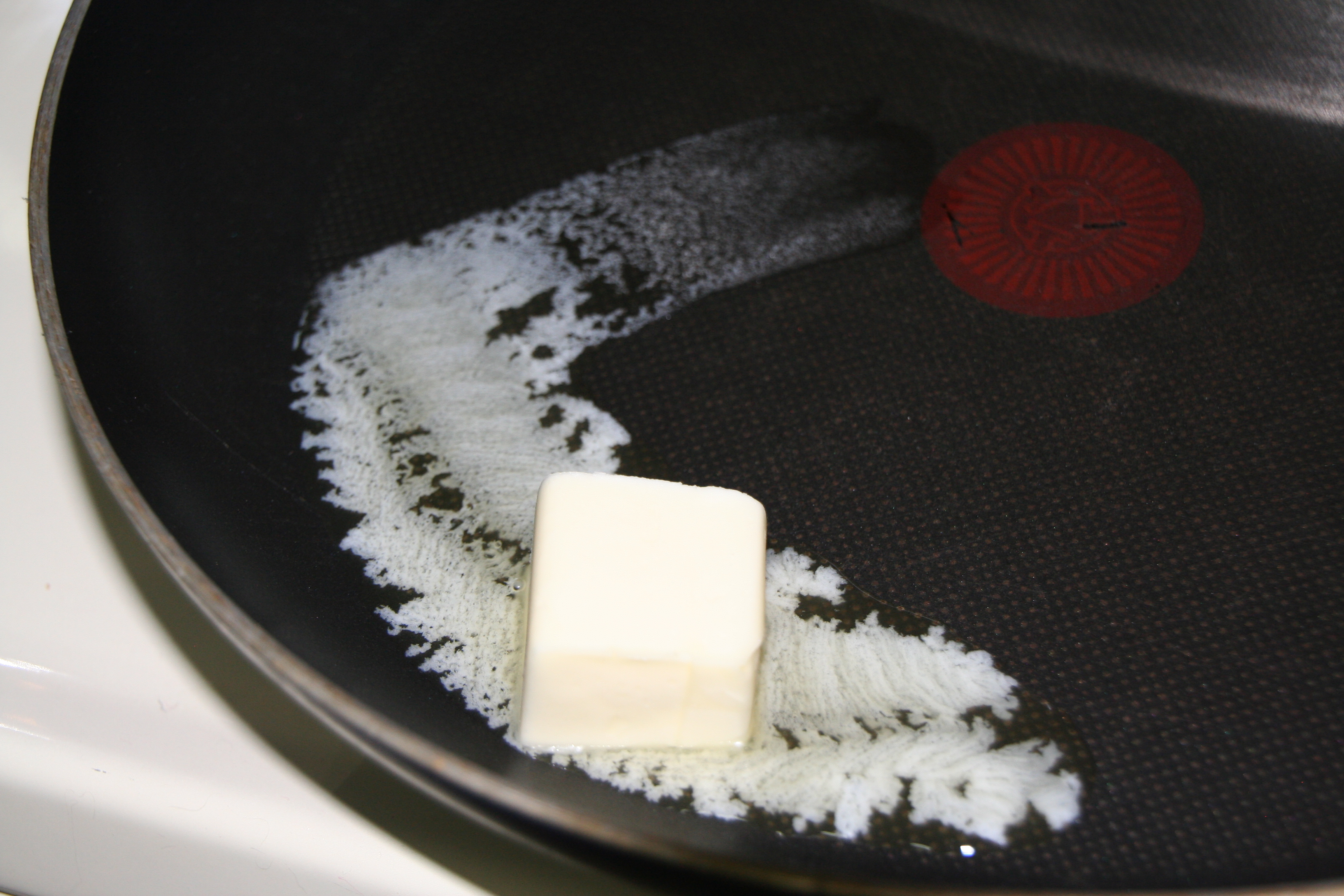 Butter melting in a skillet.